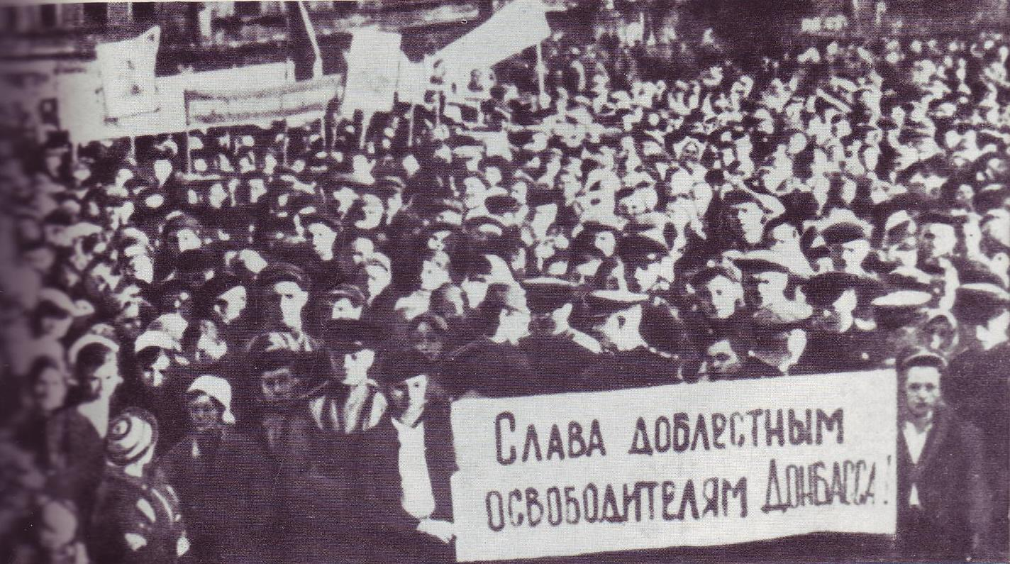 Official public meeting in Stalino (Donetsk) after the citys liberation by the Red Army September 8th, 1943.